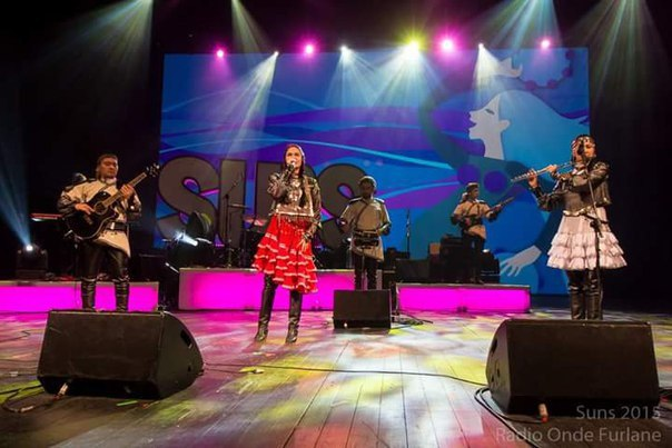 Suns Europe - 2015, rehearsals